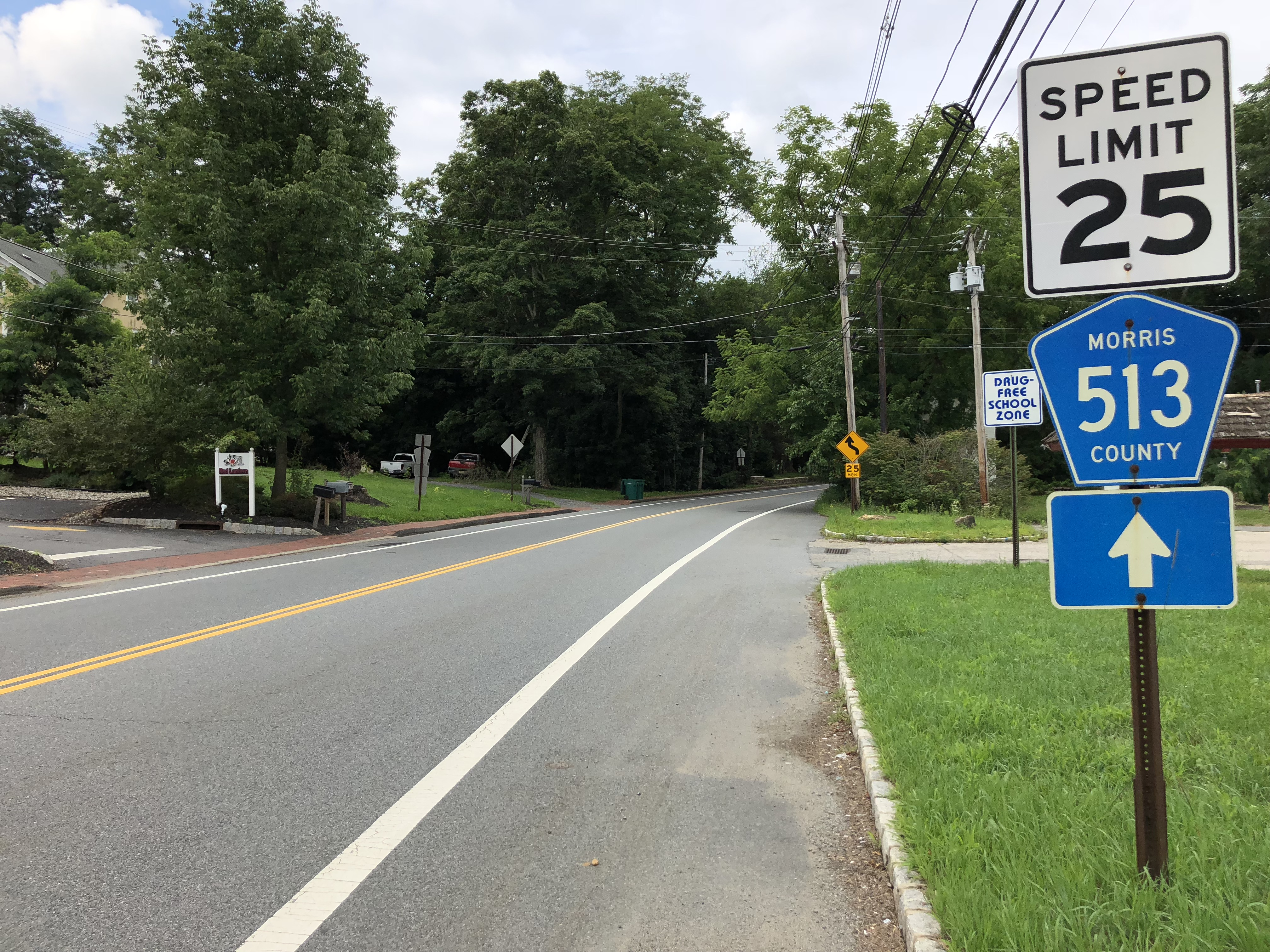 View south along Morris County Route 513 (West Mill Road) just south of Morris County Route 517 (Fairmont Avenue/Schooleys Mountain Road) in Washington Township, Morris County, New Jersey